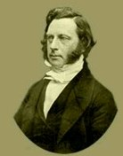 Darwin's second cousin William Darwin Fox, who sparked his interest in beetles while at Cambridge